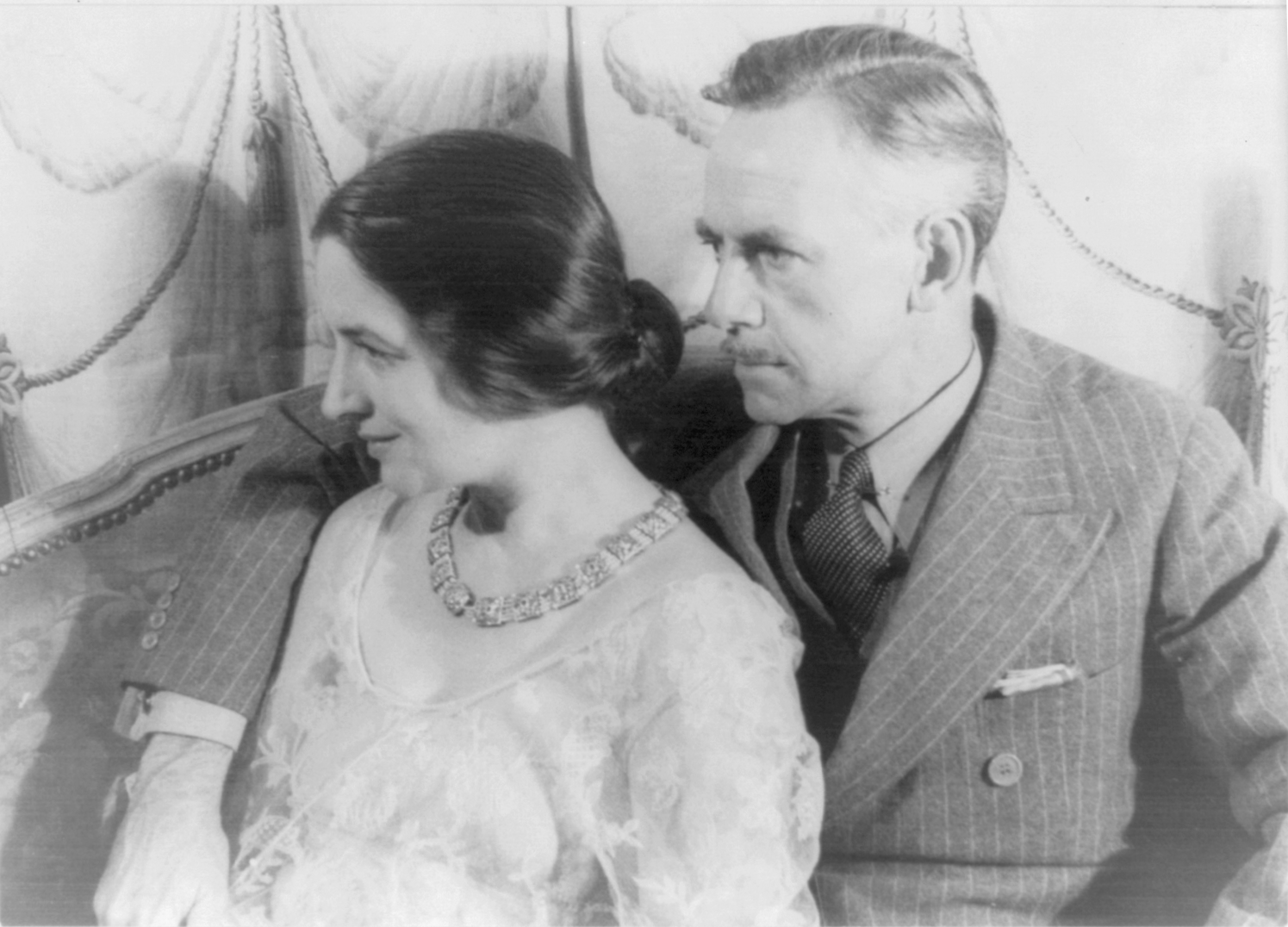 Eugene O'Neill and Carlotta Monterey O'NeillPortrait of Eugene O'Neill and Carlotta Monterey O'Neill